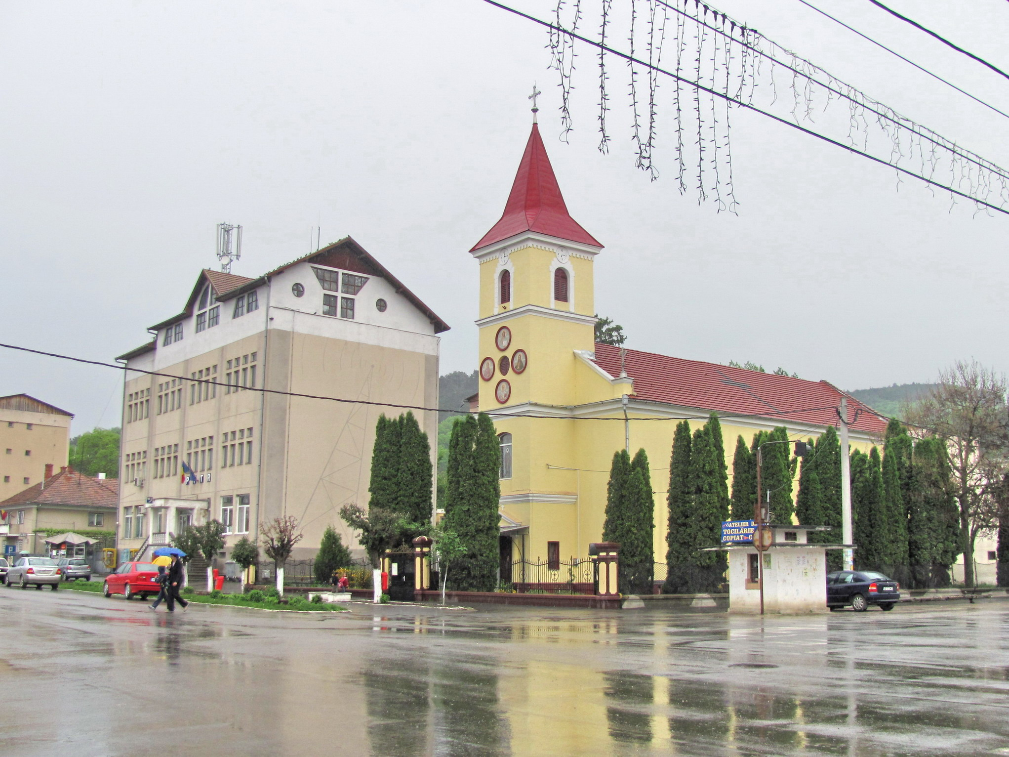 Greek-Catholic Church